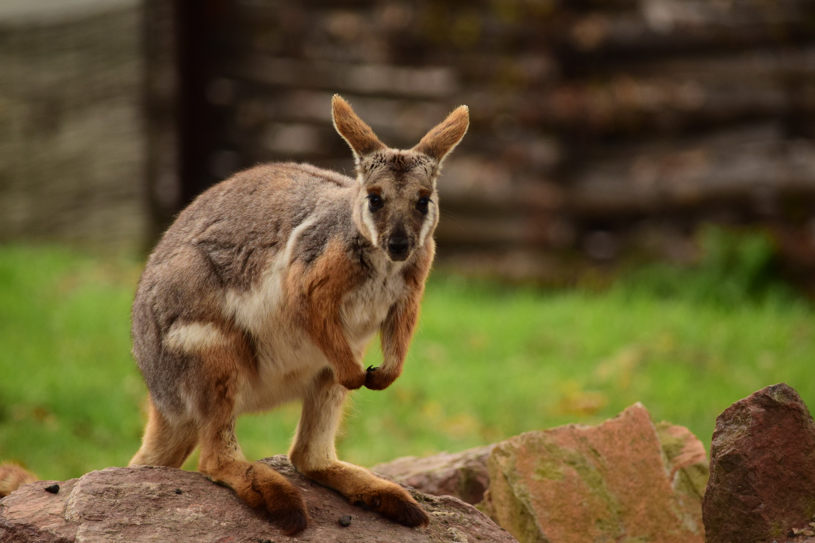 Kangaroo in Brno Zoo